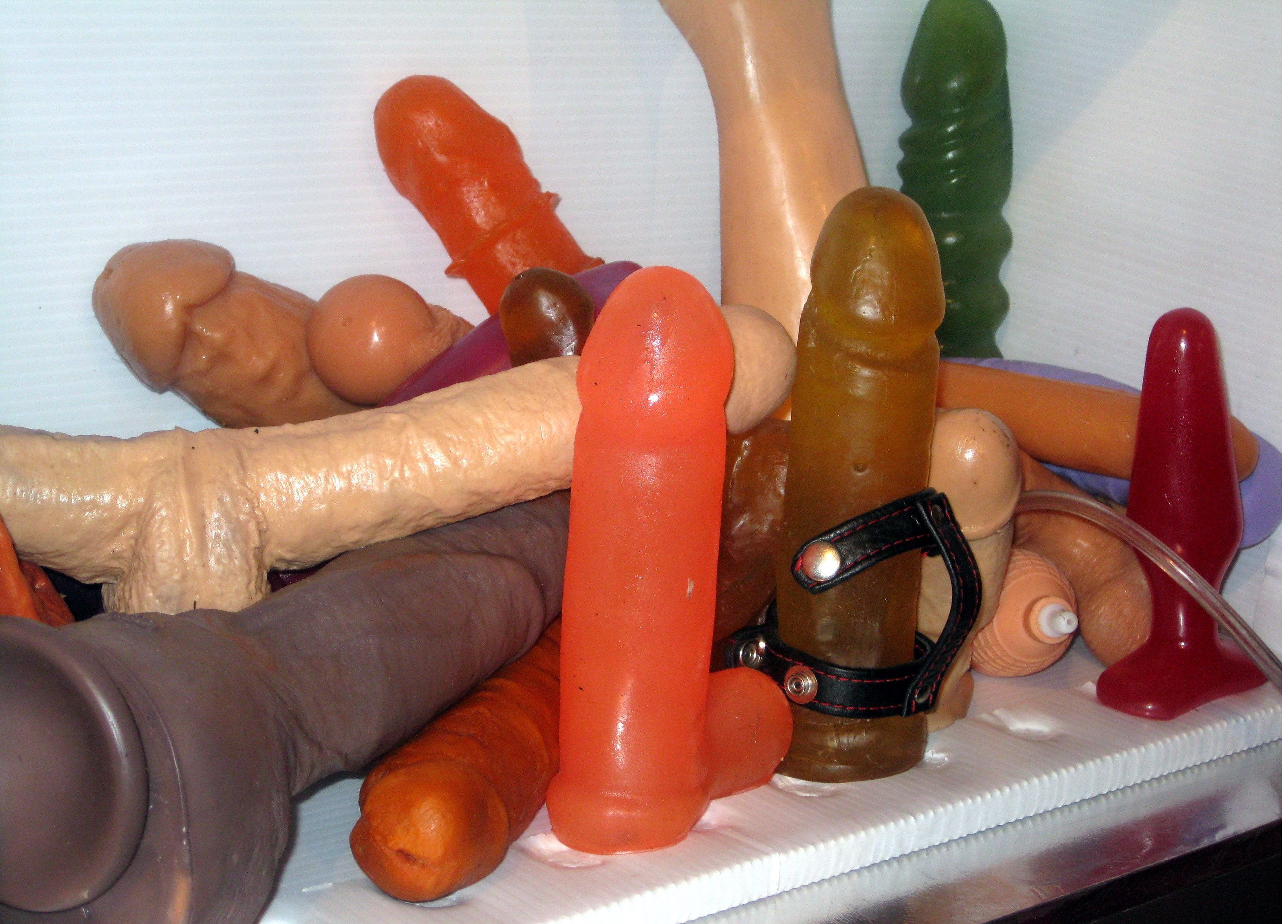 glbt history museum, opening night. Castro, San Francisco, CA.